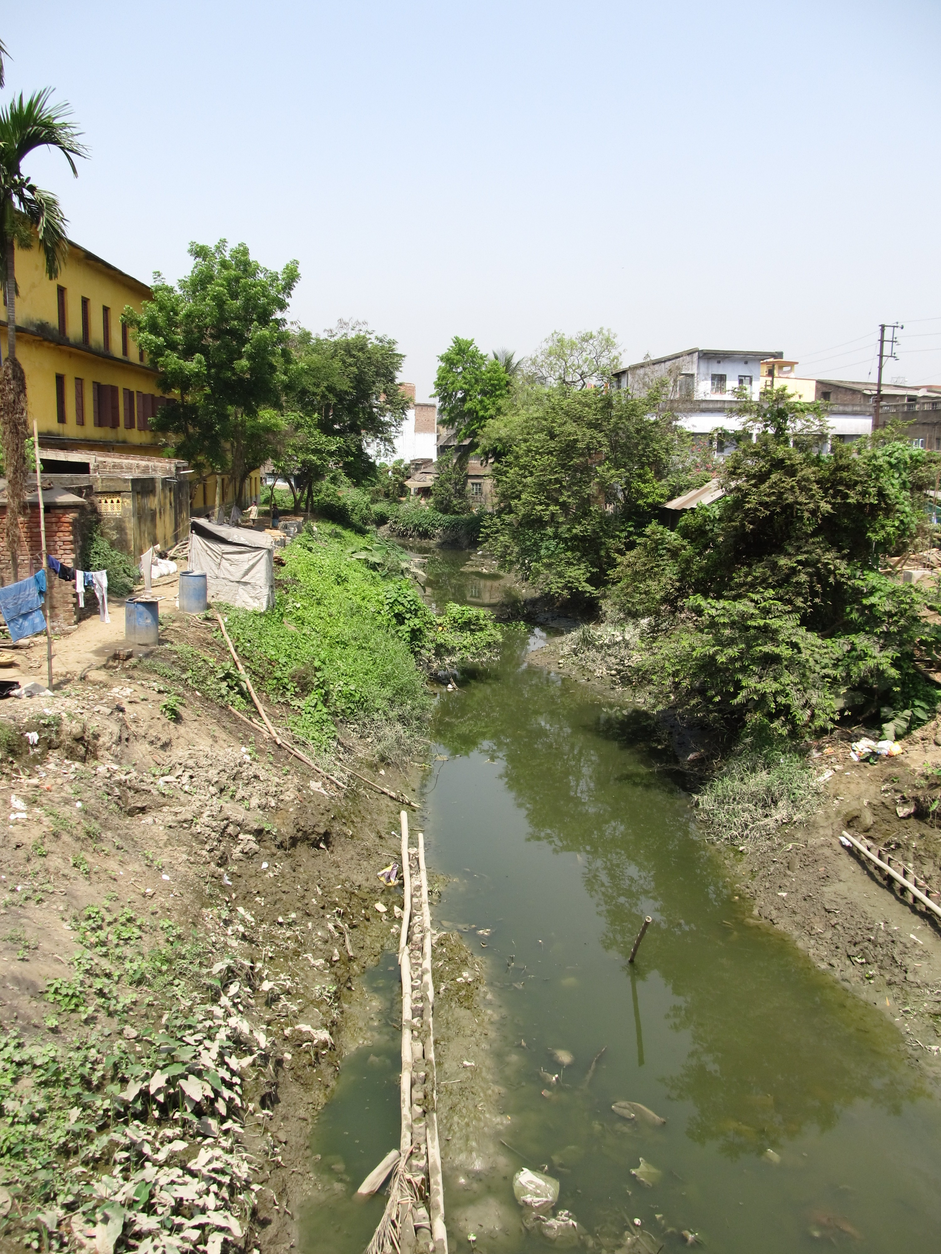 Photographed at Andul, Howrah.